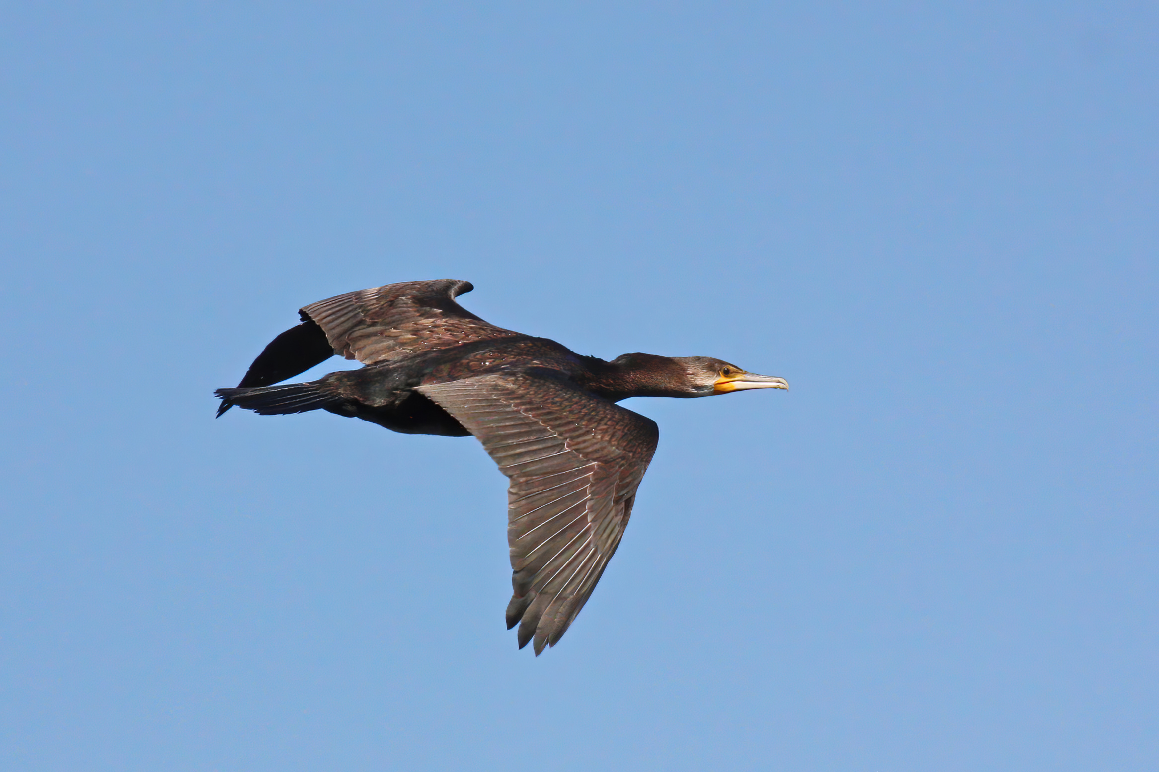 Great cormorant (Phalacrocorax carbo) in flight, Farmoor Reservoir, Oxfordshire